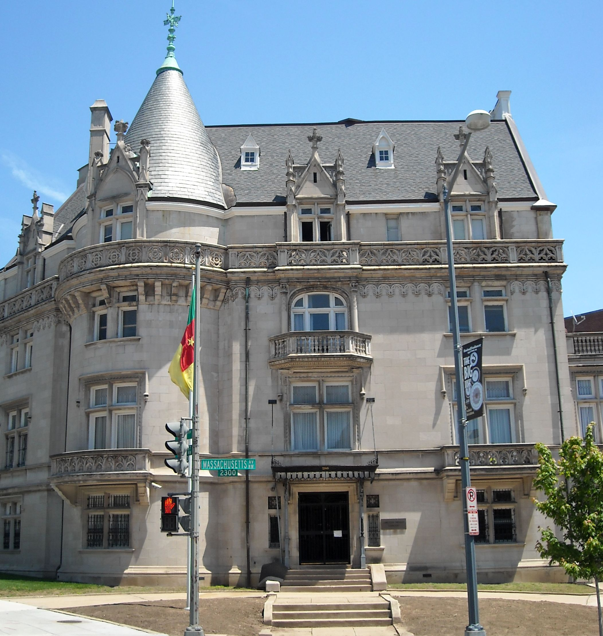 Embassy of Cameroon, Washington, D.C.